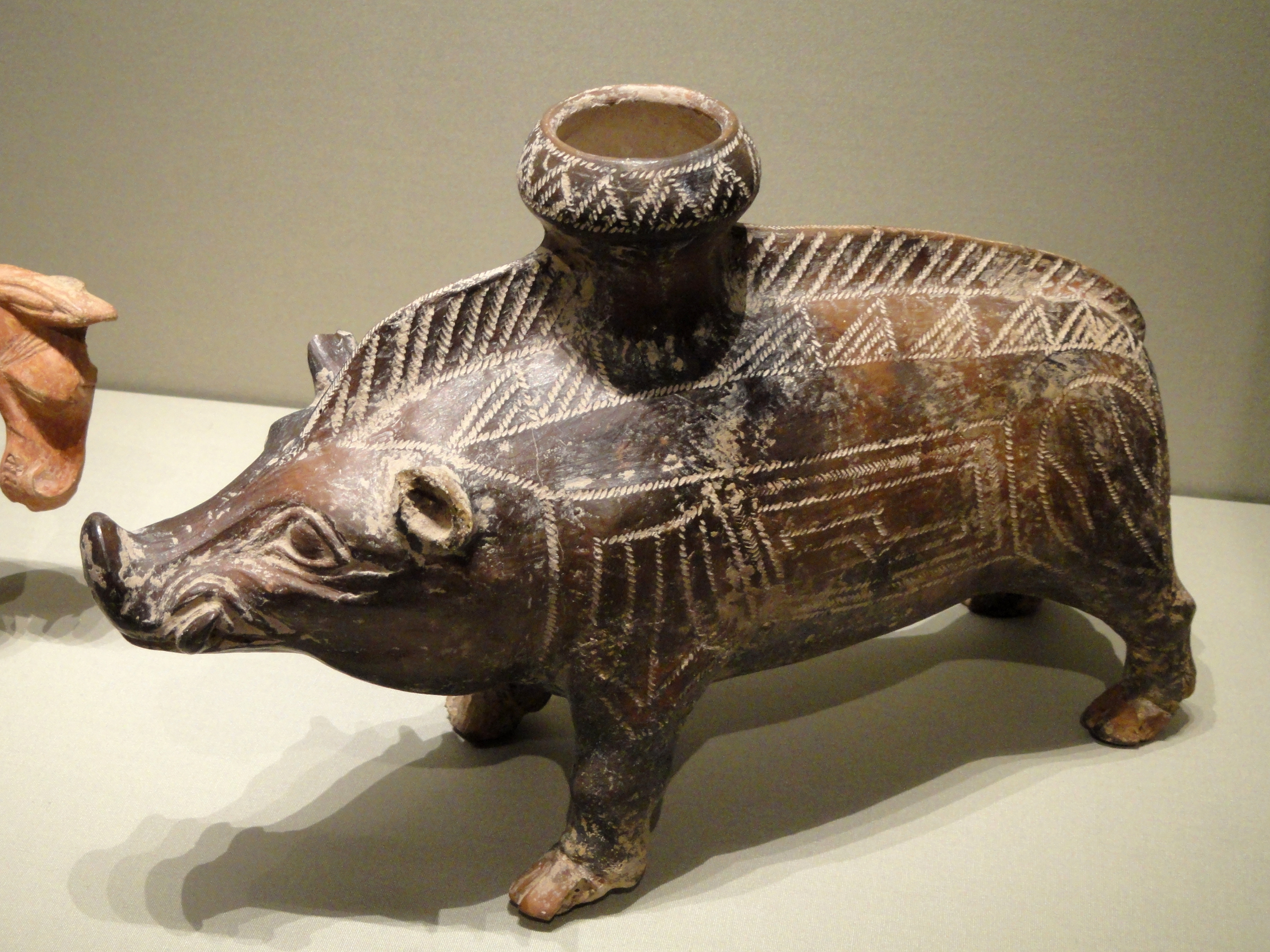 Etruscan art with boar — in the Cleveland Museum of Art, Cleveland, Ohio, USA. This artwork is old enough so that it is in the public domain.